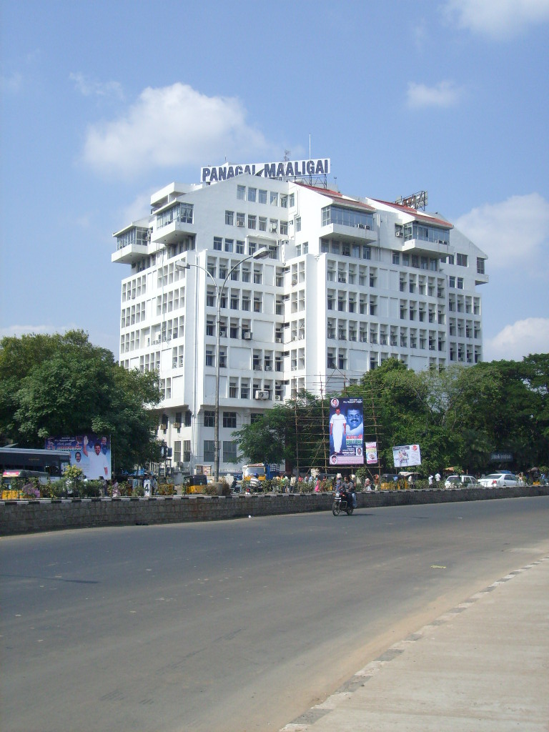 Panagal Building (Panagal Maligai), Saidapet. Named after the Raja of Panagal.